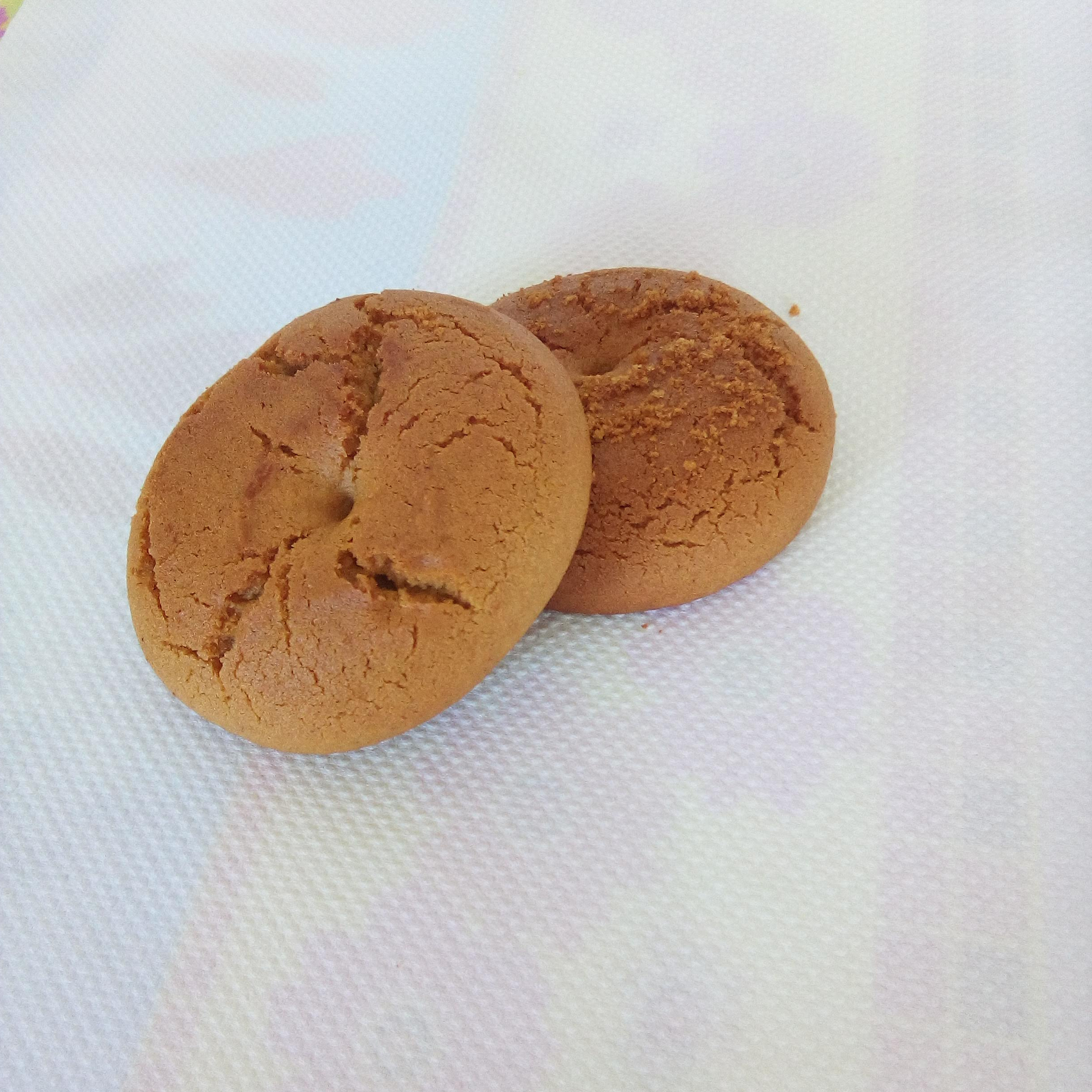 Grape must cookies (moustokouloura), a traditional greek recipe.